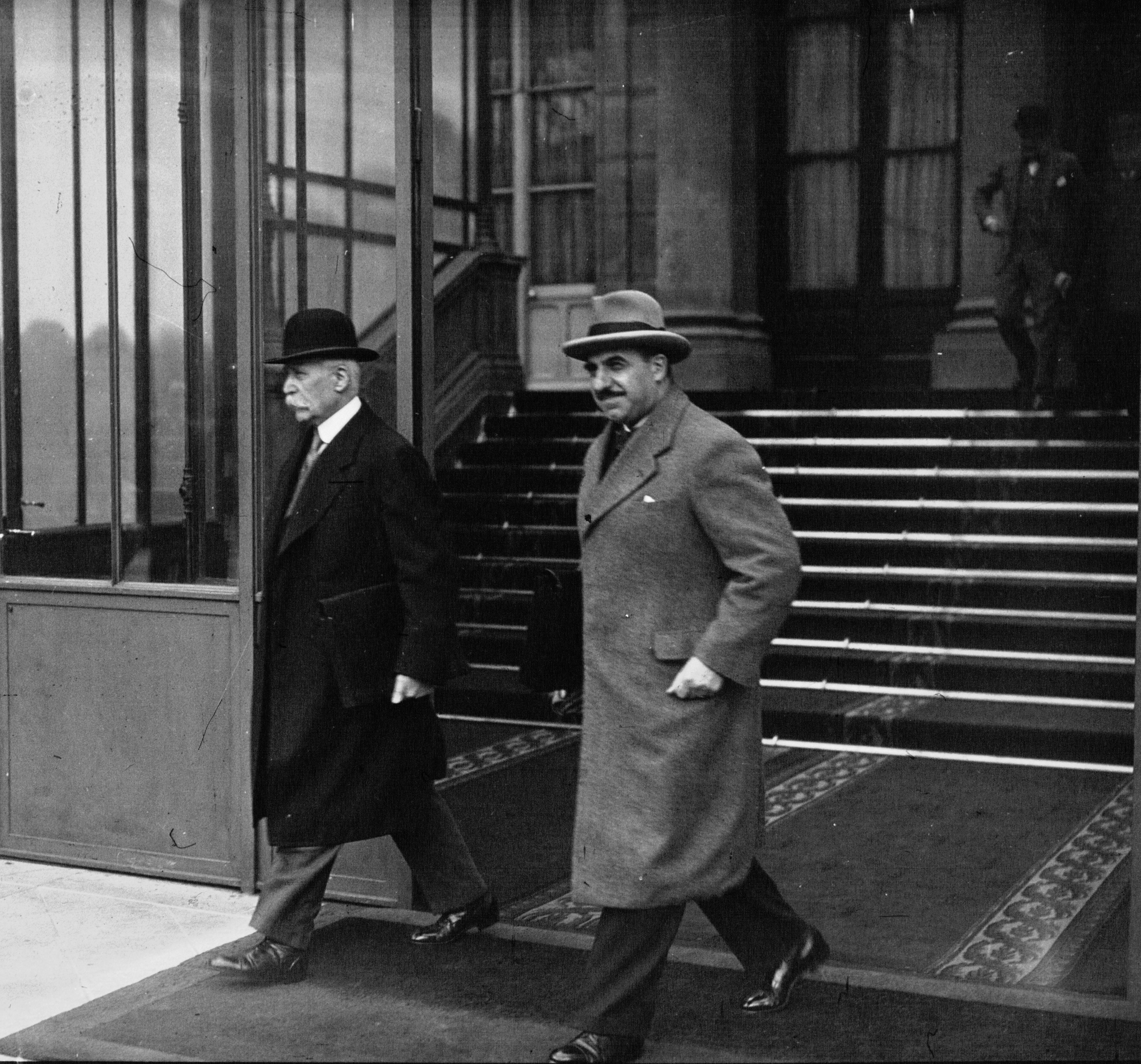 Council of Ministers at the Élysée Palace in 1934. From left to right: Philippe Pétain, Victor Denain.